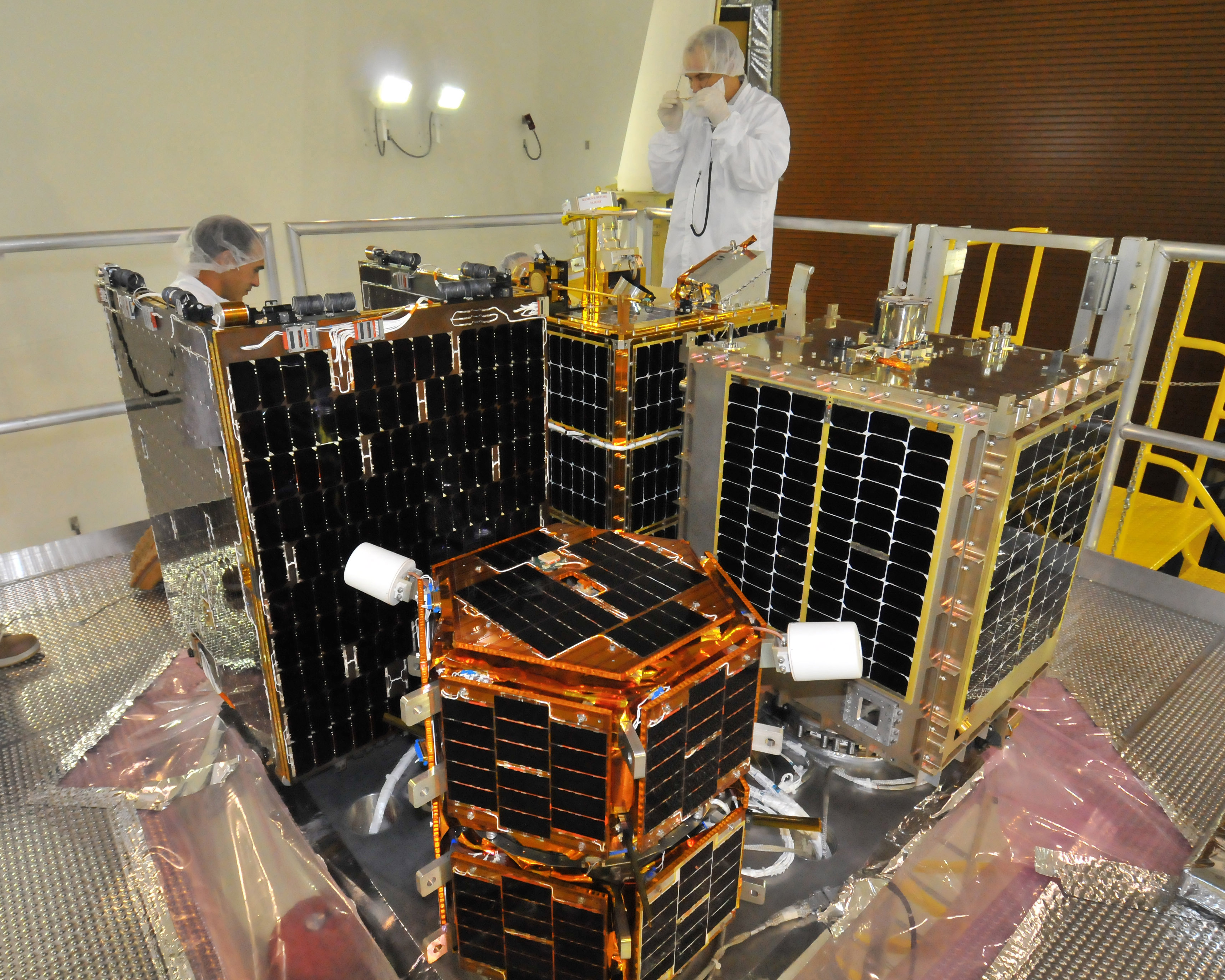 Five satellites sit atop a Minotaur IV launch vehicle at Kodiak Launch Complex, Alaska. Clockwise from front are the two stacked FASTRAC 1 & 2 satellites (OSCAR 69 & 70), the STPSat-2, the FASTSAT-HSV01 and the FalconSat-5. The satellites are being prepared for the U.S. Dept. of Defense's Space Test Program S26 launch, currently scheduled for Nov. 19, 2010.